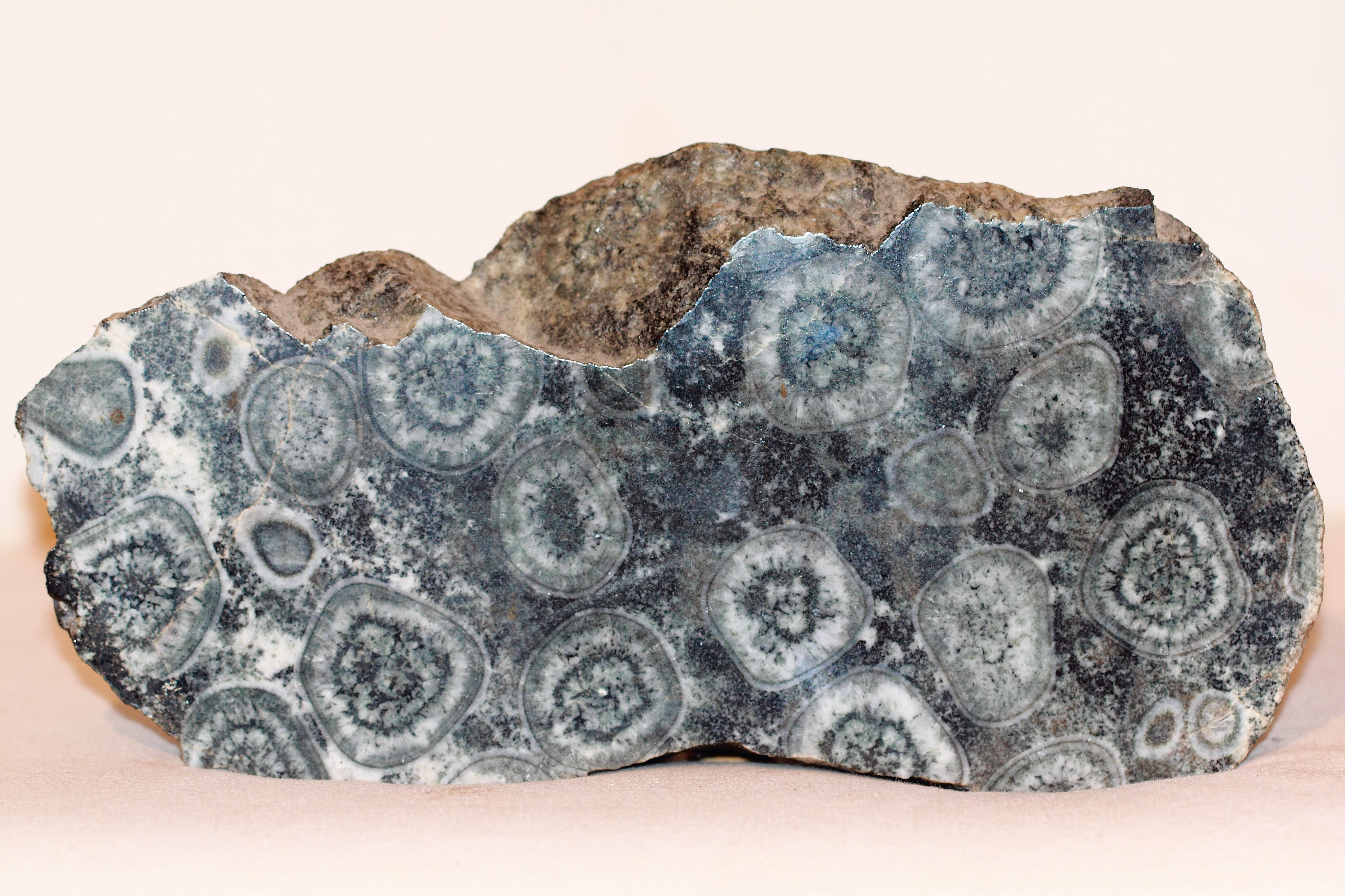 Orbicular diorite from Corsica (Santa Lucia di Tallano).